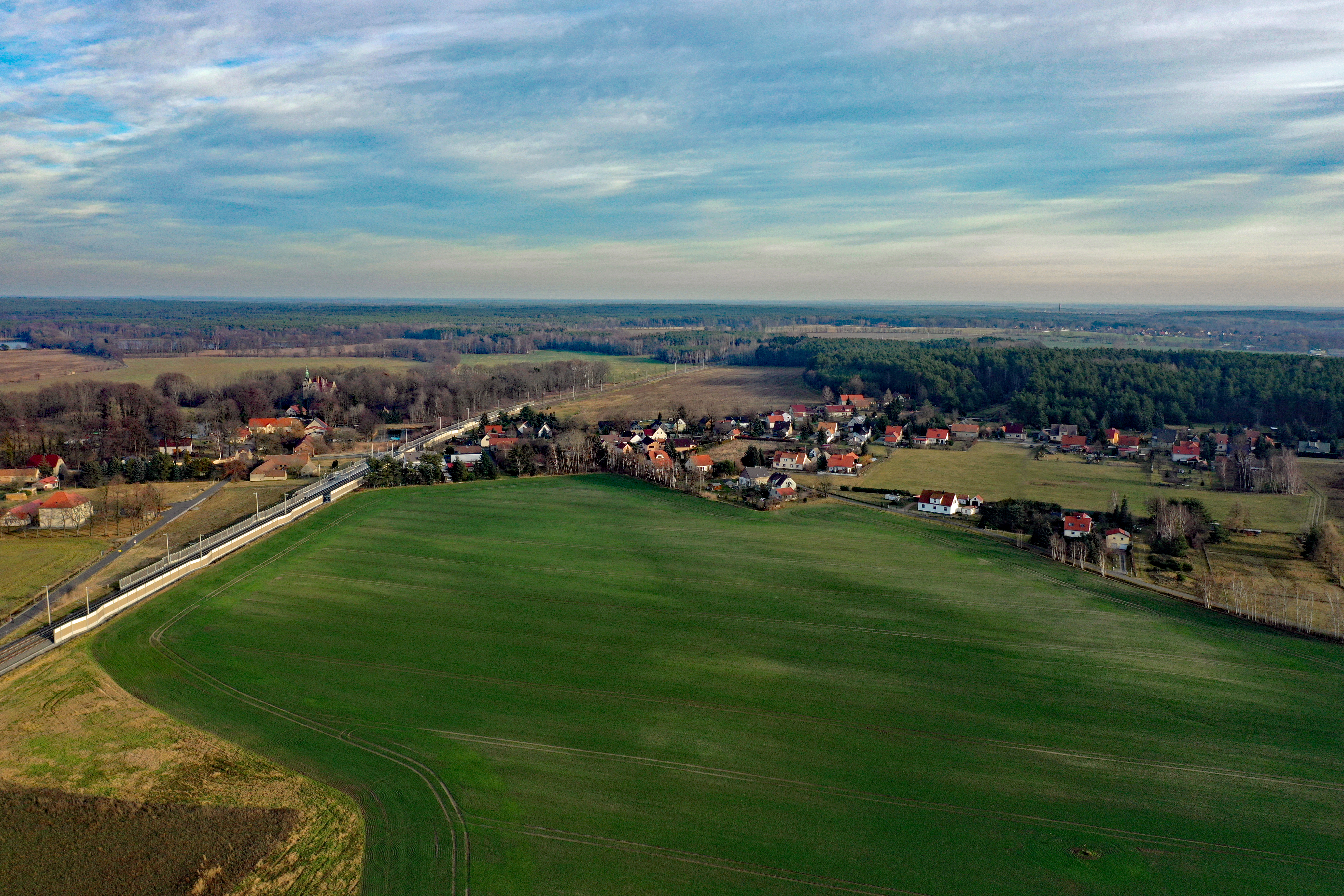 Southern part of Petershain and Węgliniec–Roßlau railway line (Quitzdorf am See, Saxony, Germany)